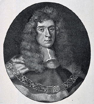 Judge George Jeffrys (1644-1689)